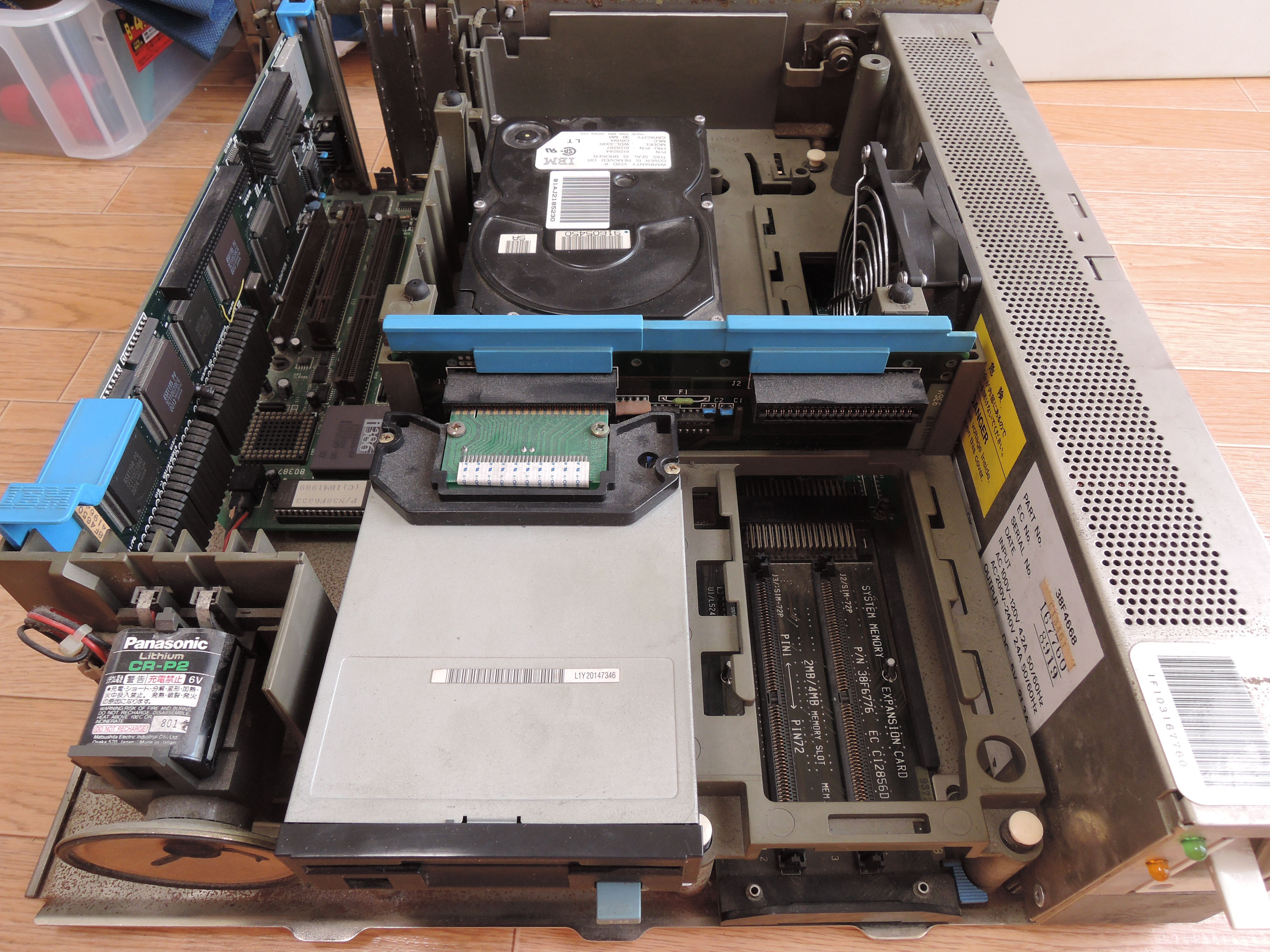 IBM Personal System/55 model 5550-T with the cover removed.